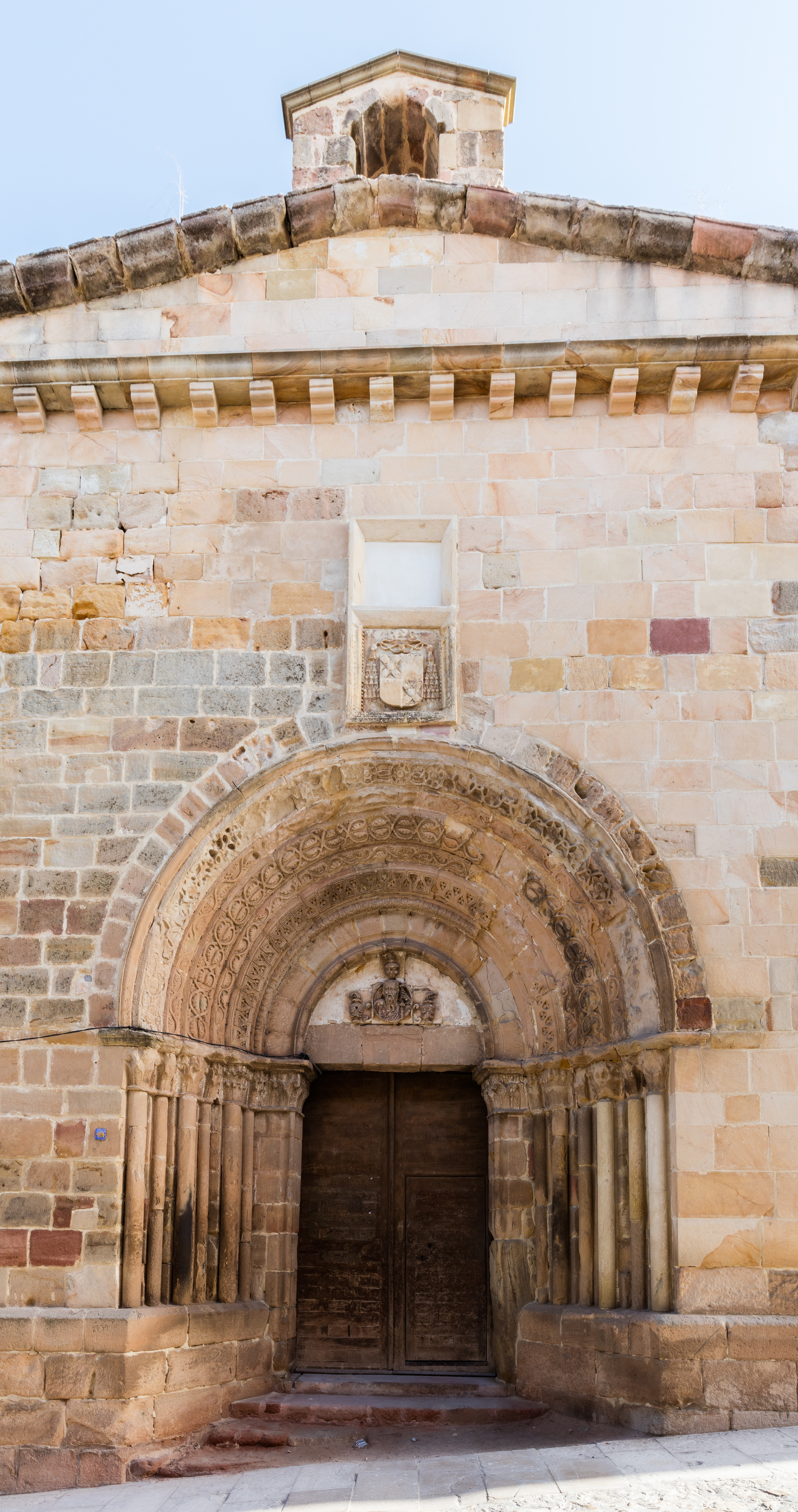 Church of Santiago, Sigüenza, Spain